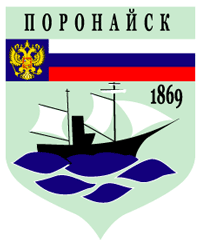 Poronaysk (Sakhalin oblast), coat of arms